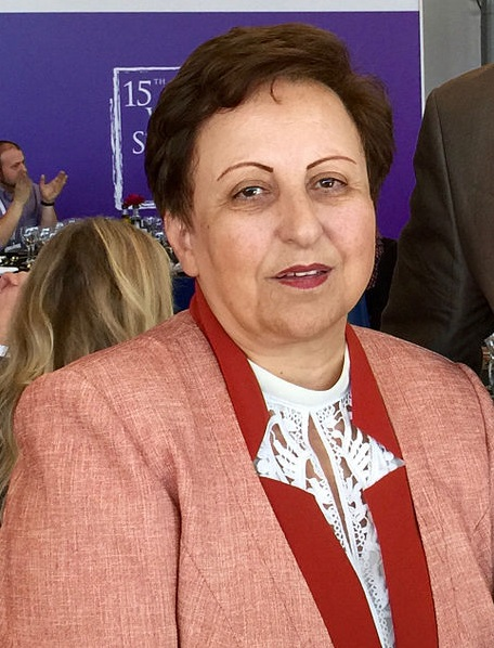 Nobel Peace Laureate Shirin Ebadi of Iran at the World Summit of Nobel Peace Laureates in Barcelona, 2015